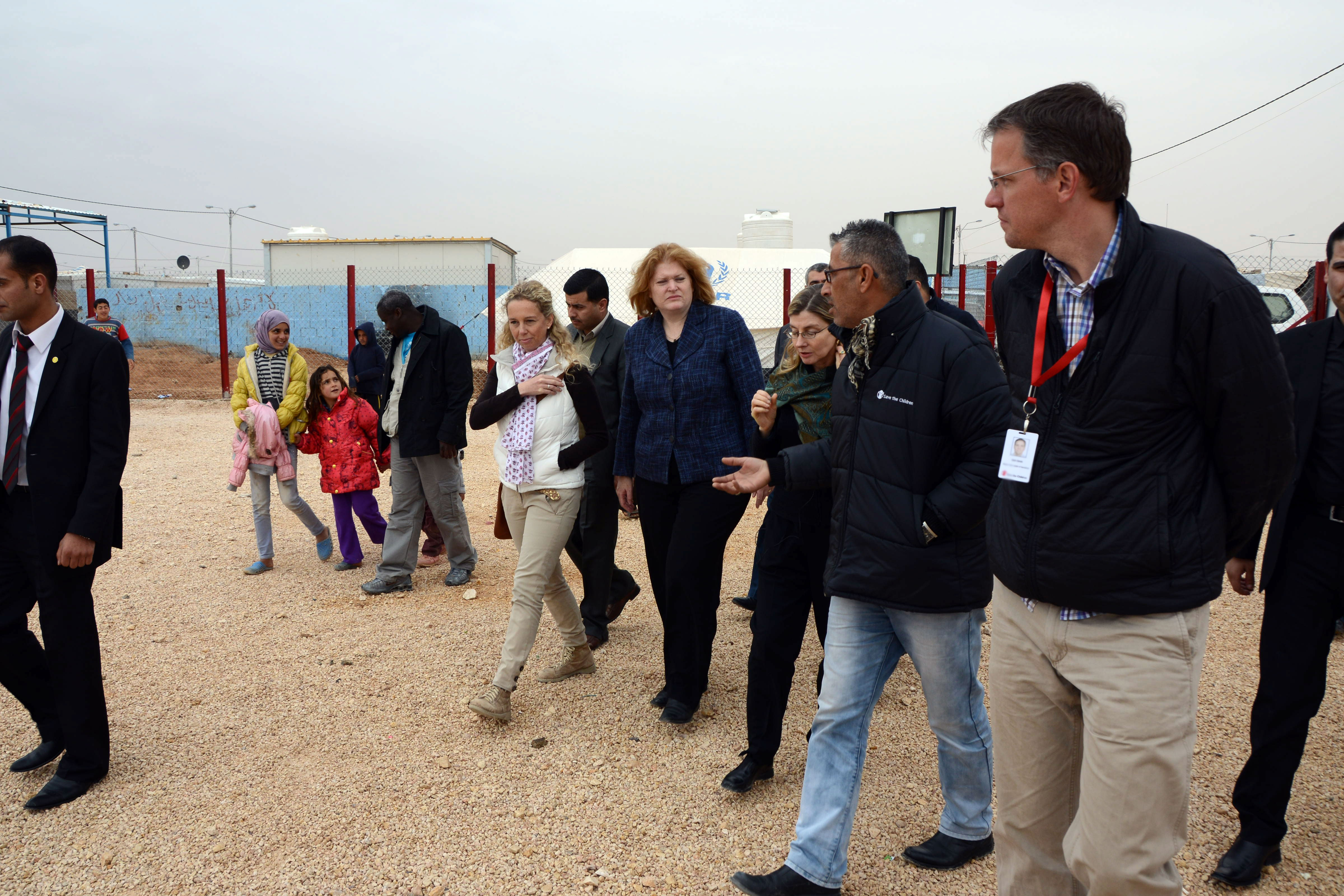 Assistant Secretary of State for Population, Refugees, and Migration Anne Richard and USAID Assistant Administrator for Democracy, Conflict, and Humanitarian Assistance Nancy Lindborg visit the Zaatari refugee camp in Jordan on January 28, 2013. [State Department photo/ Public Domain]